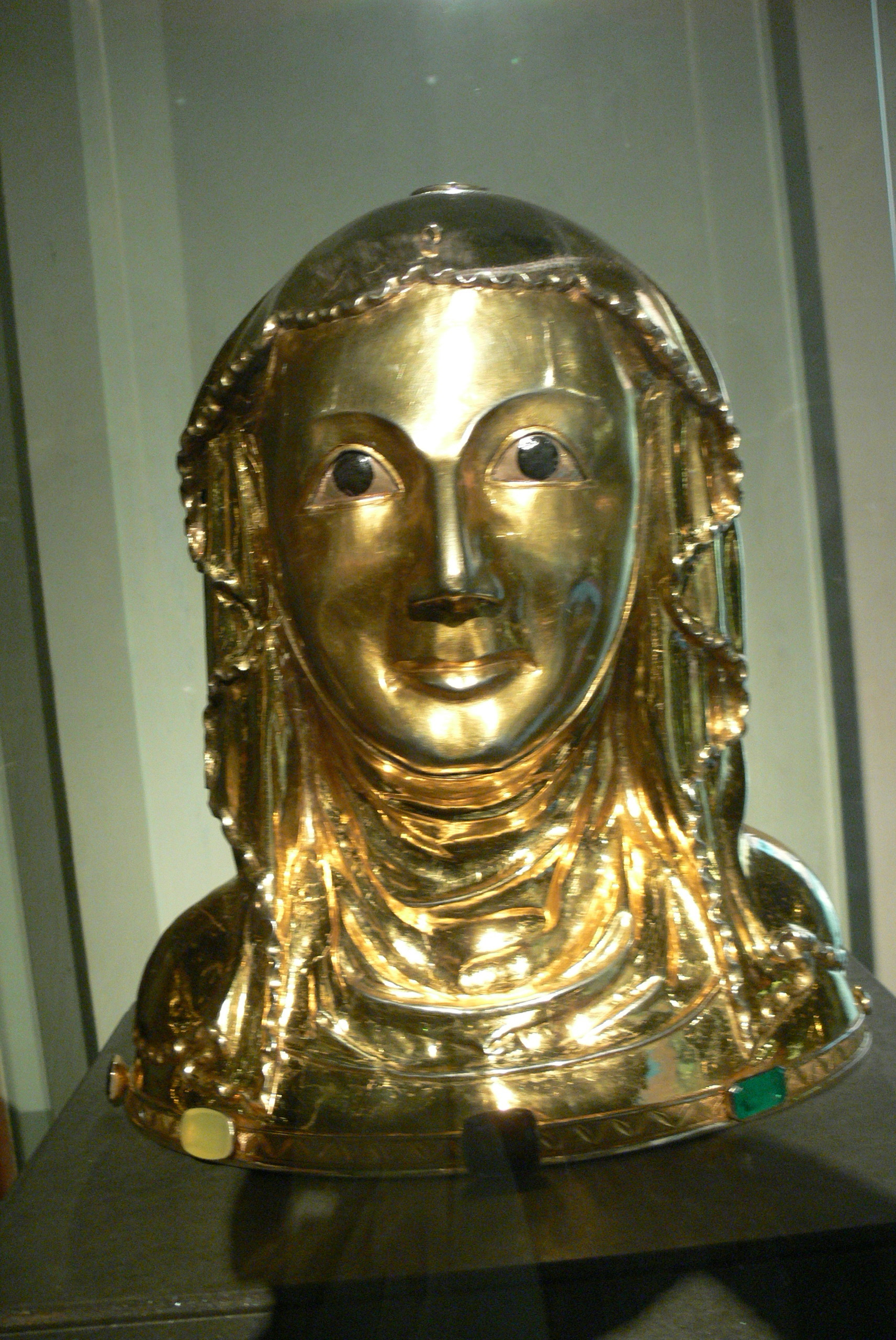 Convent of Saint Agnes of Bohemia ( Prague ). Art collection: Head reliquiary of Saint Ludmilla ( 1360s ).